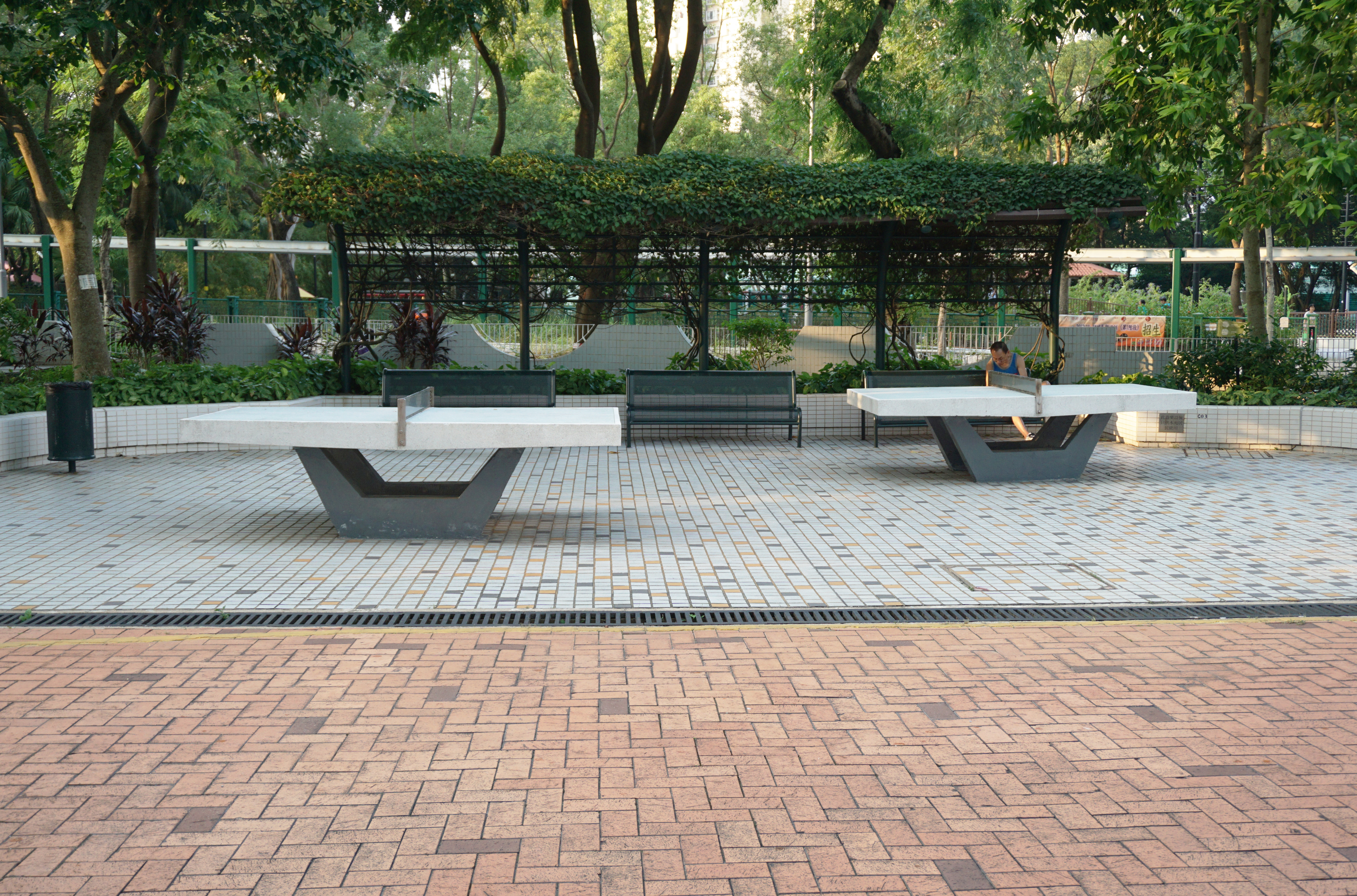 King Shing Court in Fanling, Hong Kong.